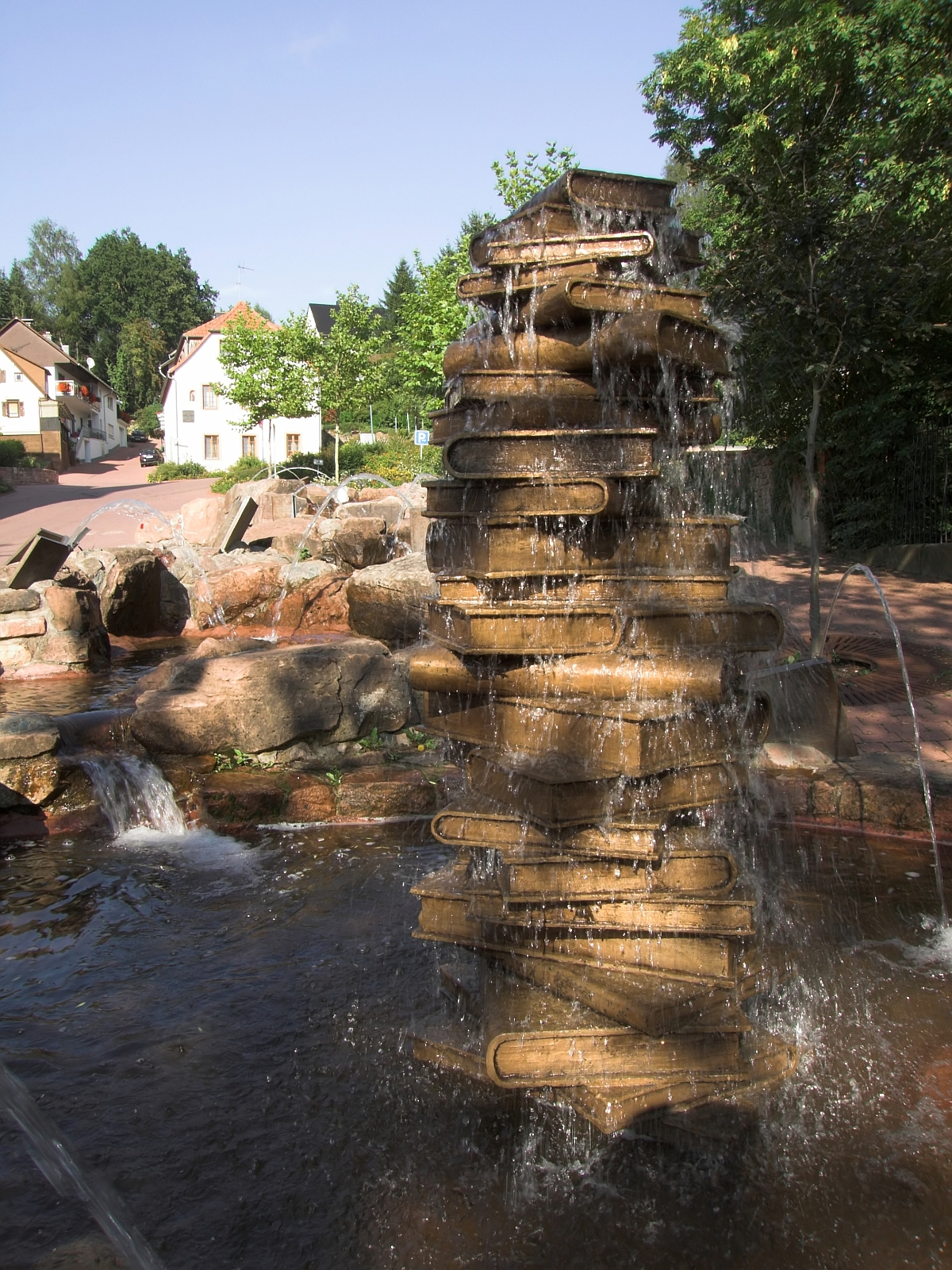 The Bookspring (German: Bücherbrunnen), Wald-Michelbach Kameradaten: Canon Powershot s70, for the rest see exif-data